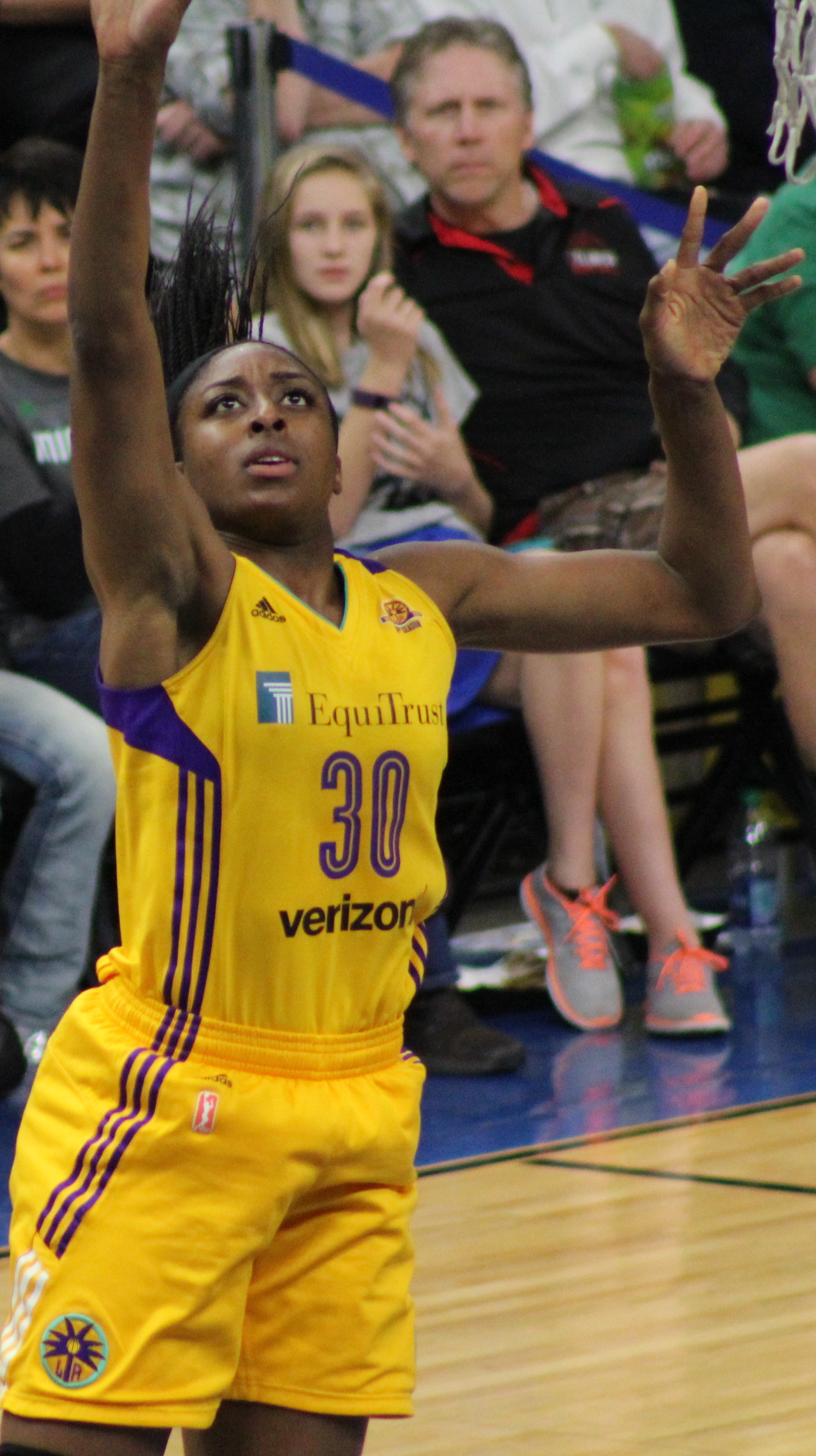 Nneka Ogwumike of the Los Angeles Sparks